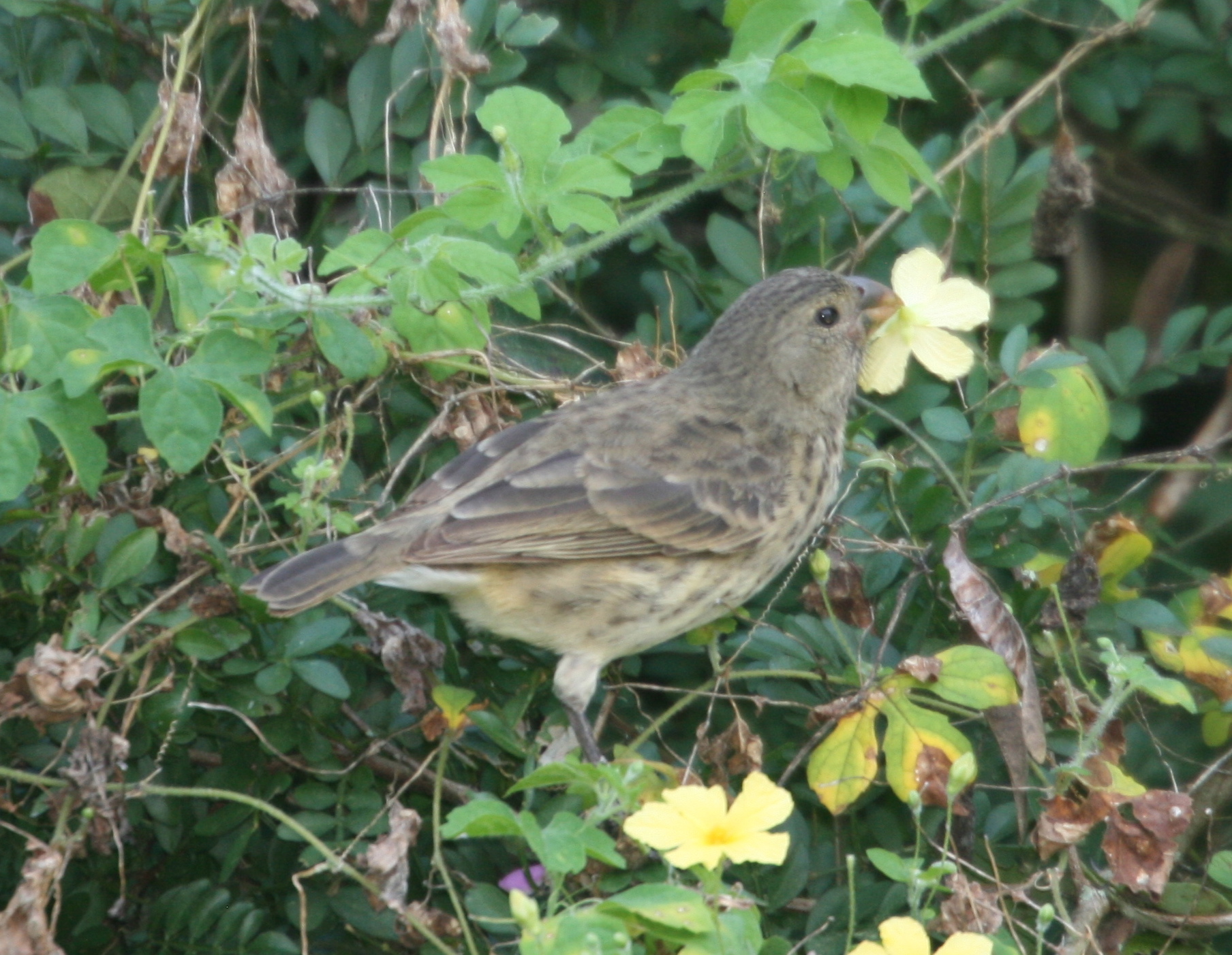 Female Vegetarian Finch (Platyspiza crassirostris) feeding on San Cristóbal in the Galápagos Islands.